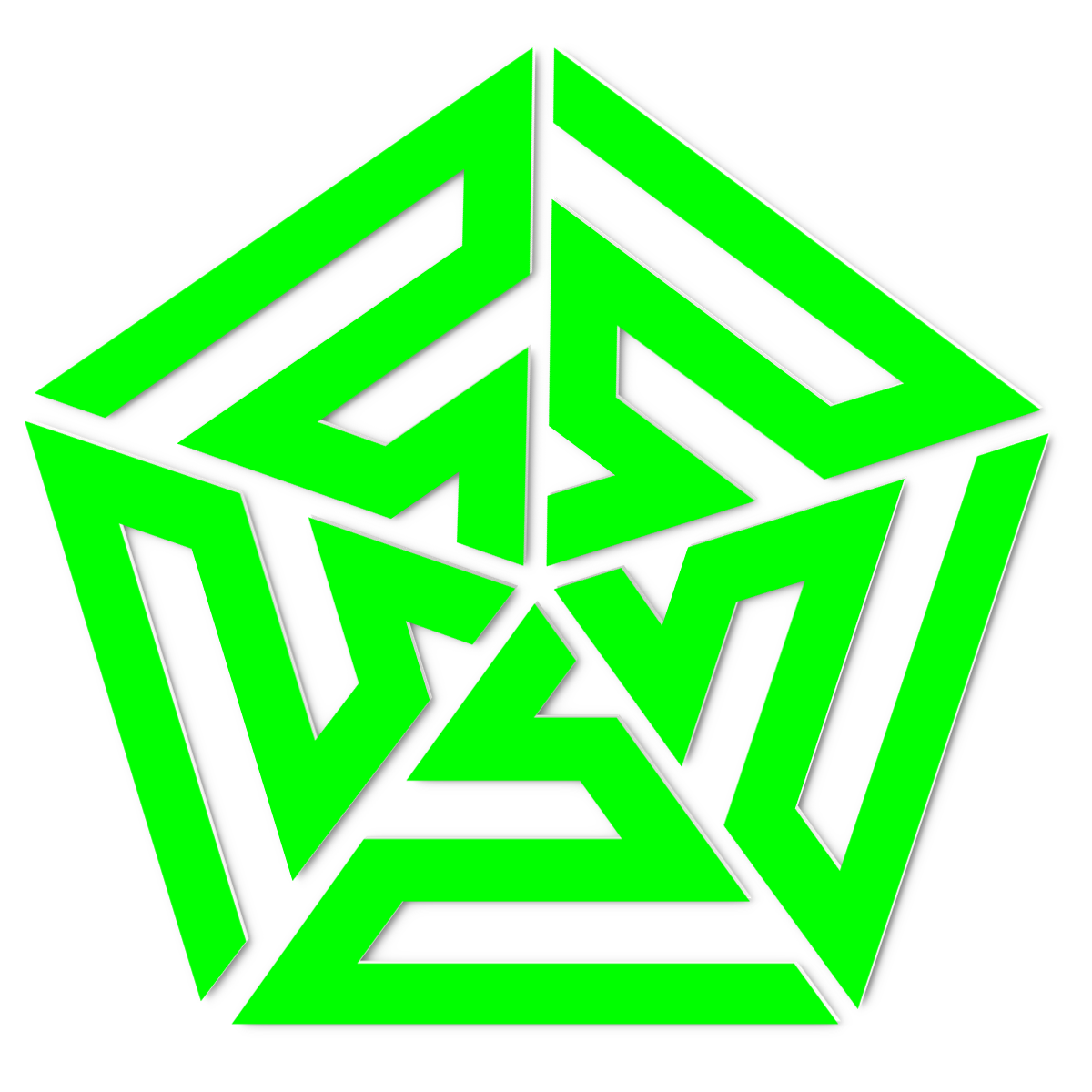 The image represent the logo of the Panamanian Carmit Chan Corporation